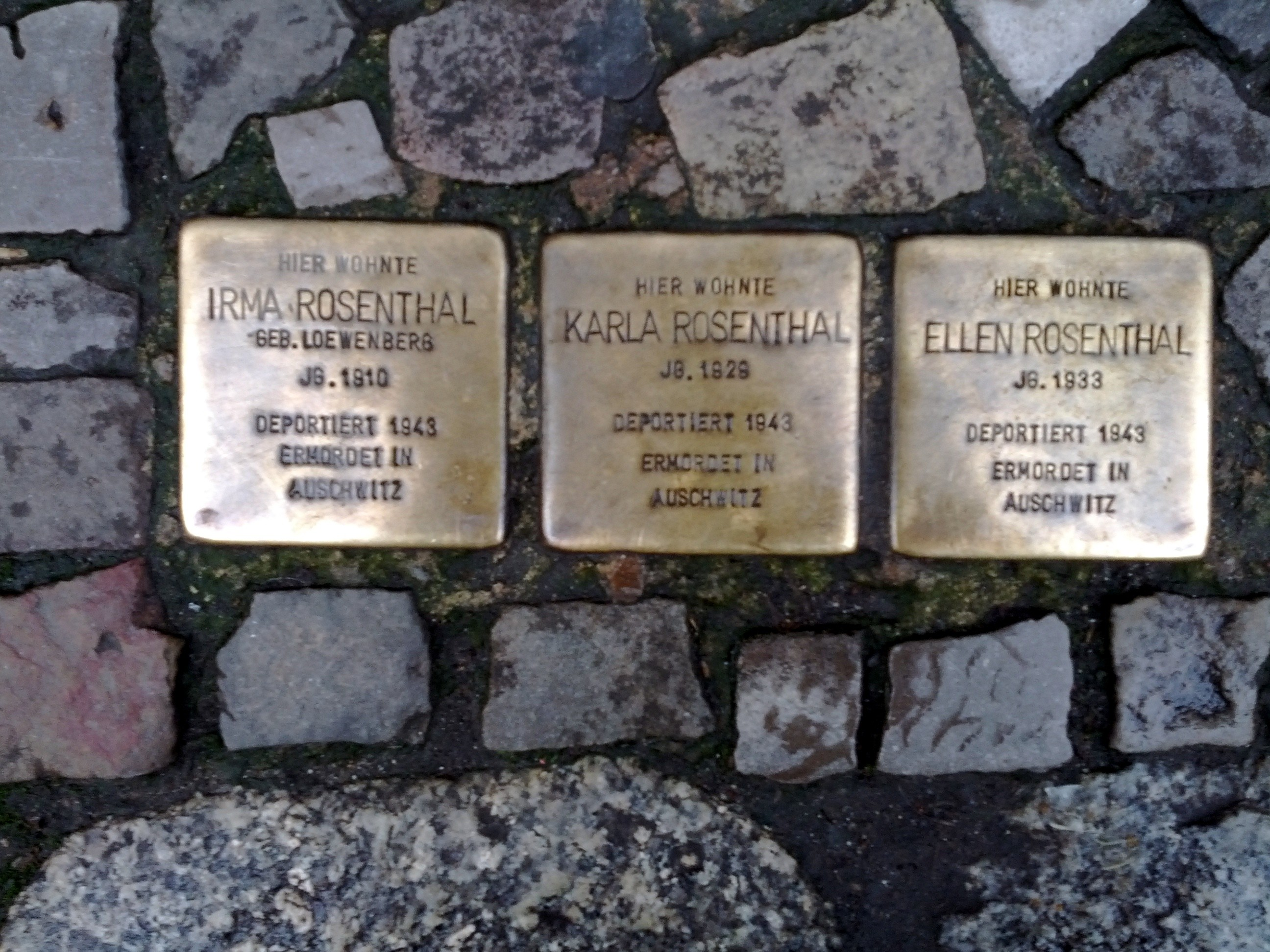 Stolpersteine, Berlin-Mitte, Germany